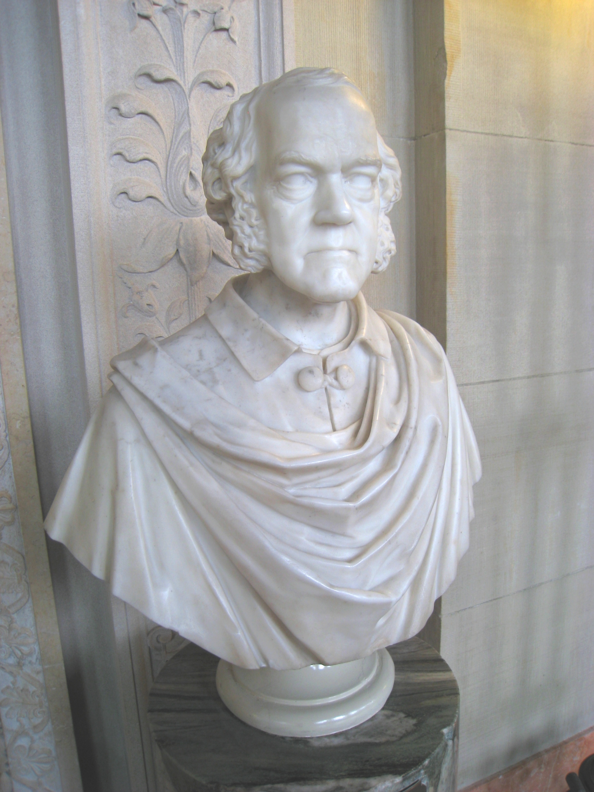 Bust of George Ticknor, by Martin Milmore (1844-1883), Boston Public Library, Boston, Massachusetts, USA. Copyright (if any) has expired as the author died more than 70 years ago.